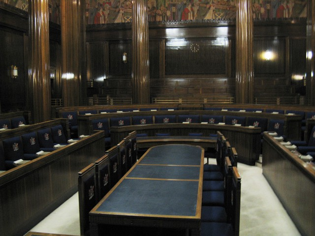 The council chamber in Swansea Guildhall This chamber is extensively covered in exotic hardwood and has a tapestry running all around it below the ceiling. For example, the supporting steel & concrete pillars are clad in scalloped shells of walnut. The shells are made from two single pieces each spanning the entire height of the column and carved from a whole tree. The chamber is now too precious to be used for everyday meetings and is only used for special occasions.